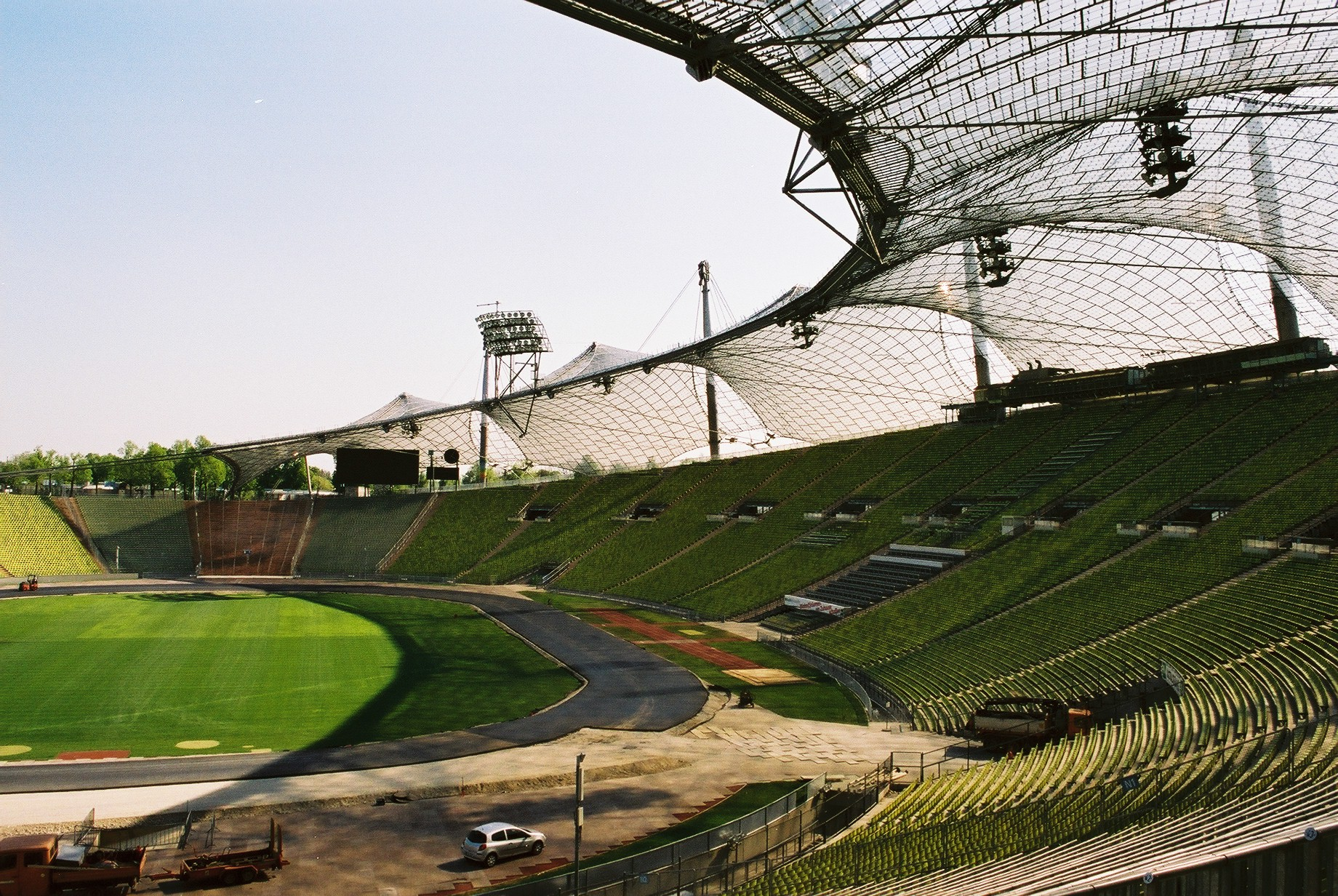 View of Munich stadium used for the Munich Olympics in 1972, now used for other competitions and concerts. Personal photo taken in April 2007.